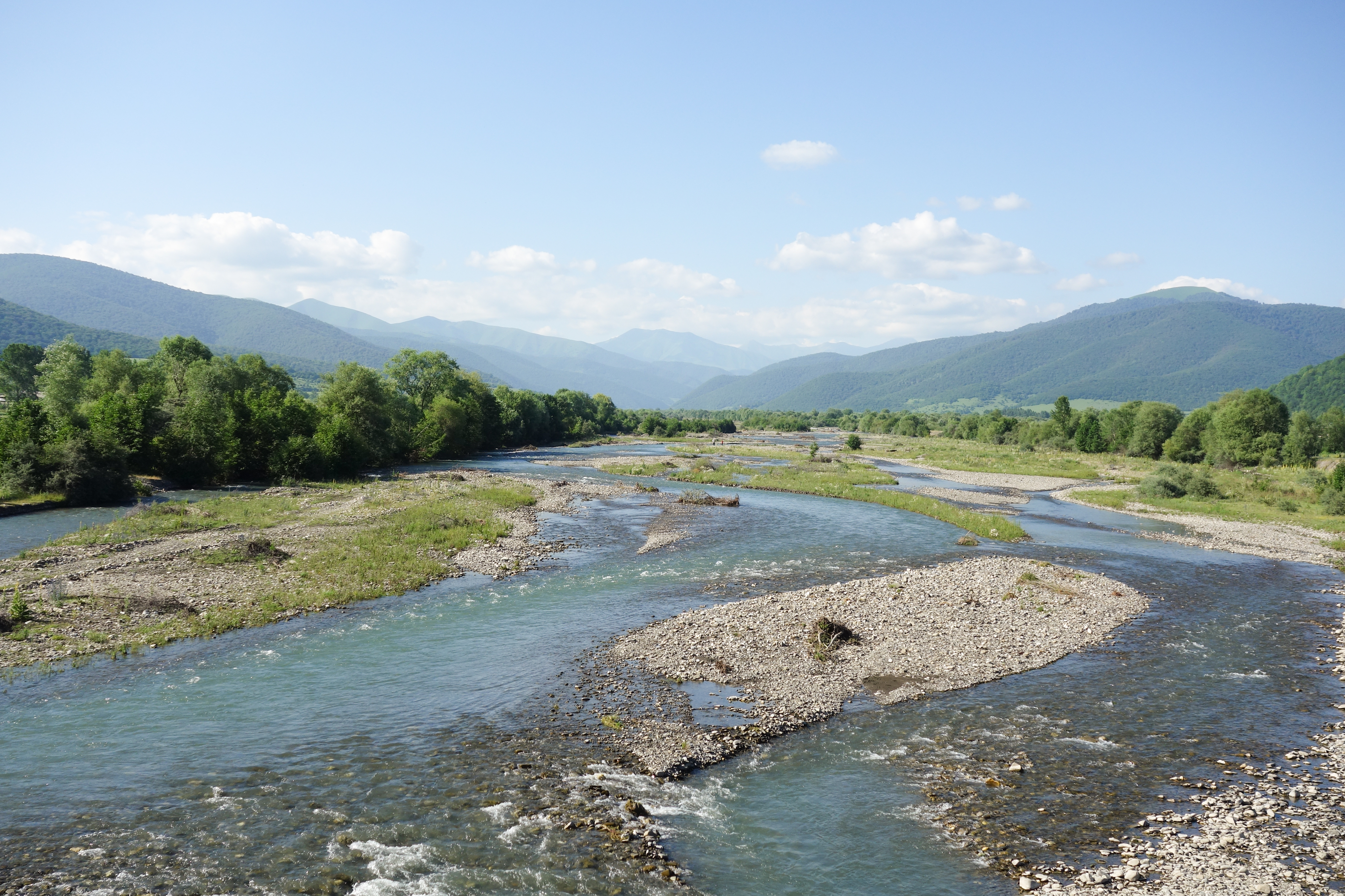 Iori River in Tianeti, Mtskheta-Mtianeti, Georgia